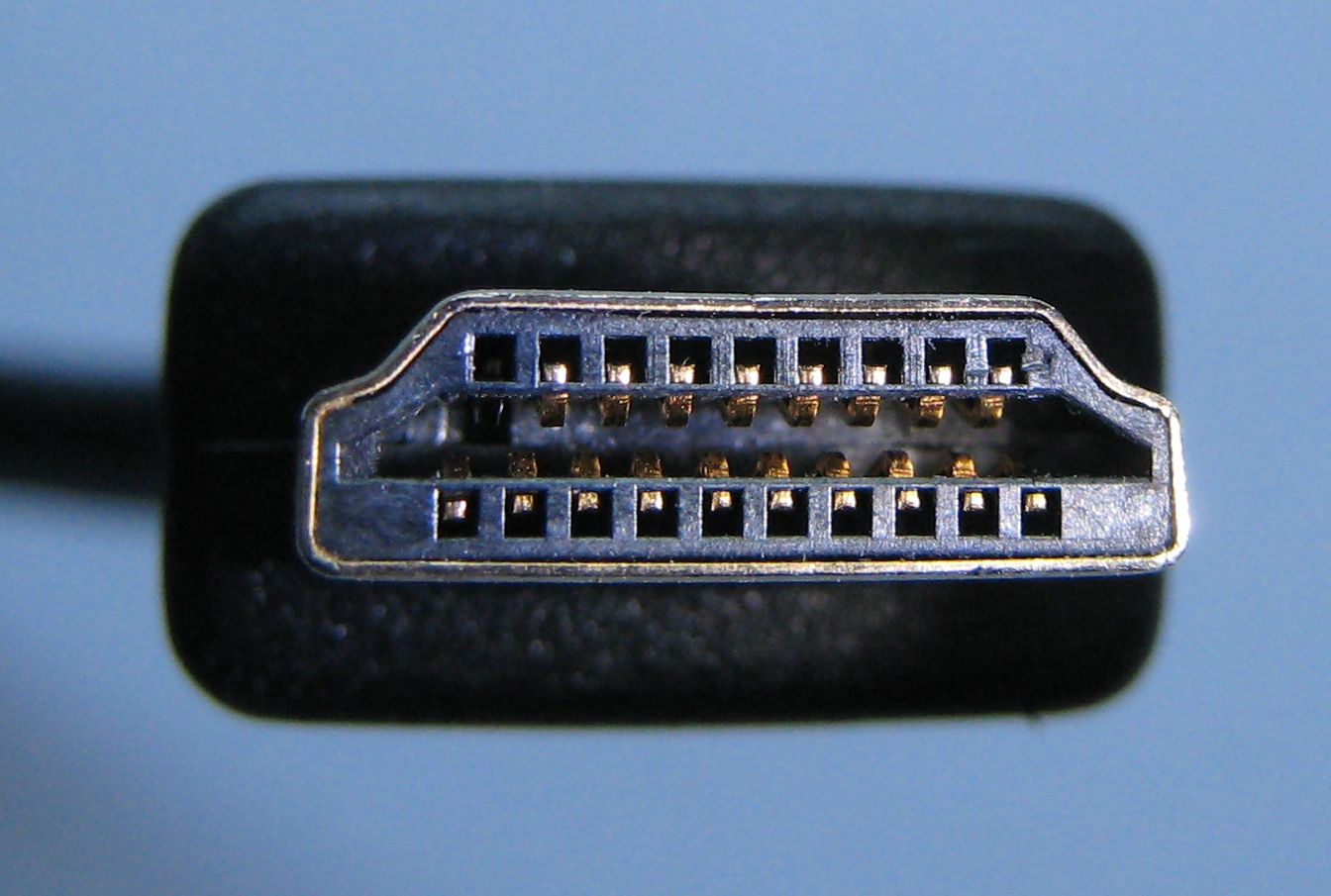 A male HDMI connector